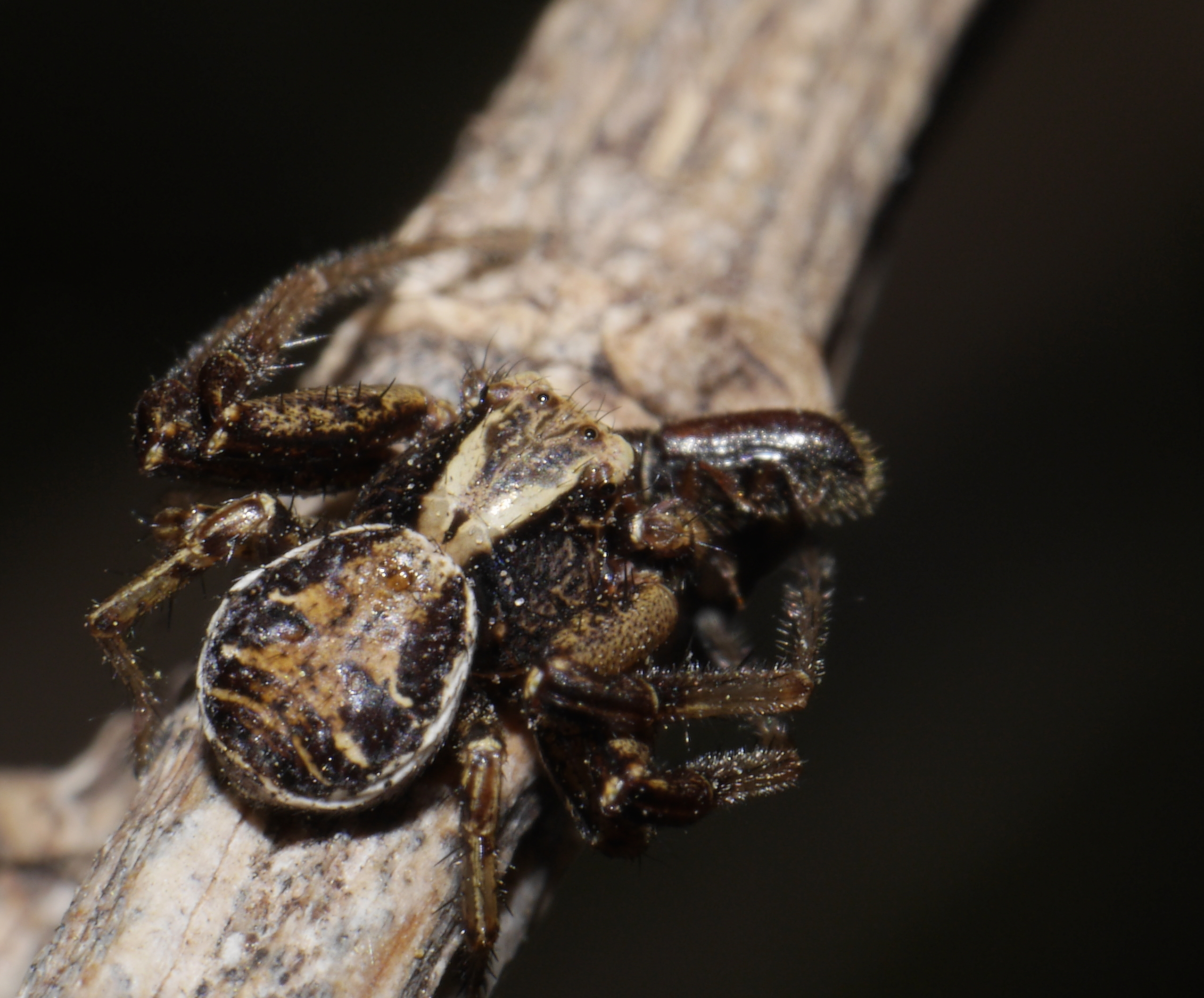 A crap spider - Xysticus cristatus, male. Taken in Mannheim, Kirschgartshäuser Schläge, Baden-Württemberg, Germany.